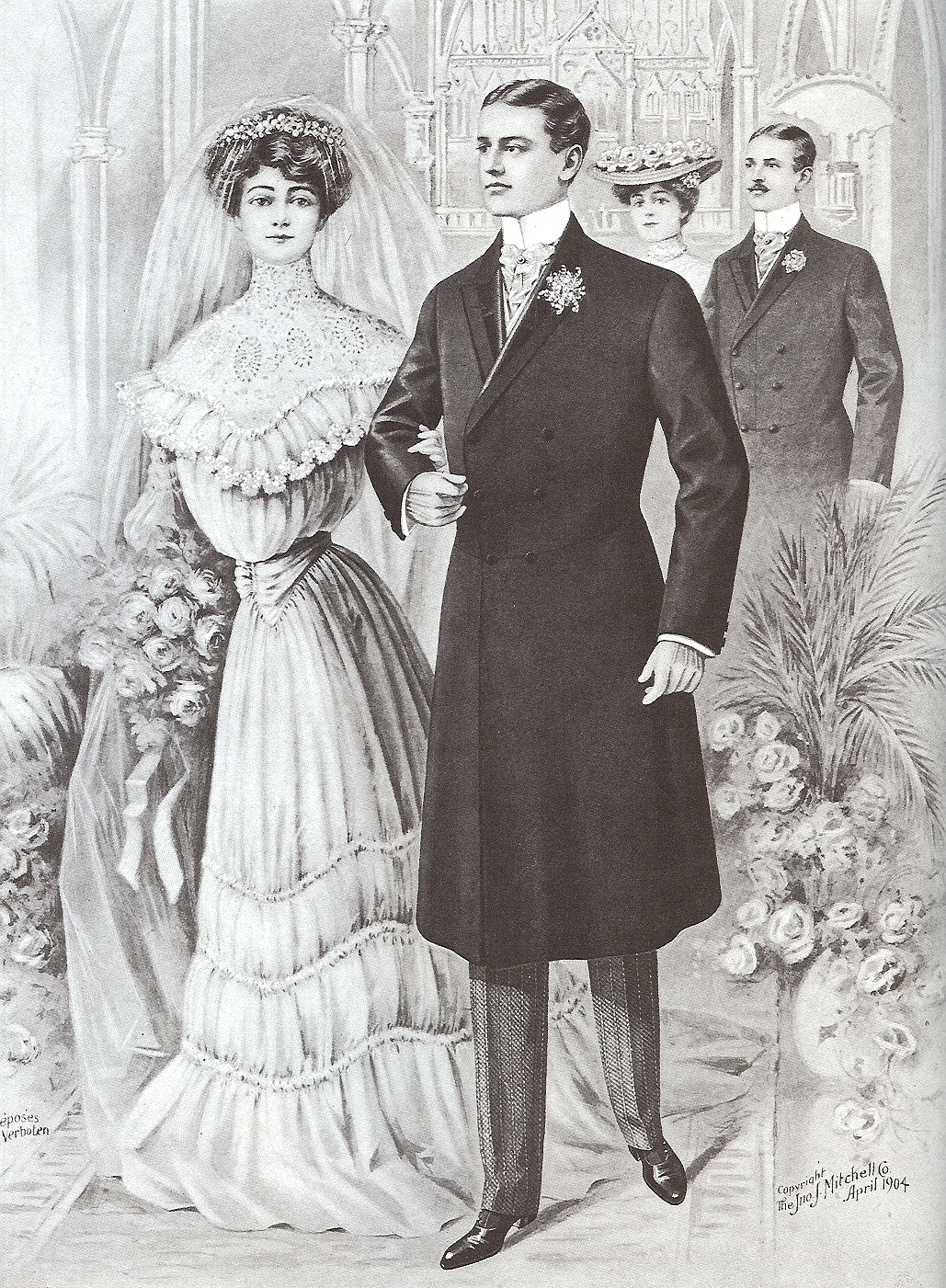 Men's Fashion Illustration form the Turn of the Century. Reprint by Dover Publications, 1990. ISBN 0-486-26353-3. Originally published New York : Jno Mitchell Co. 1910